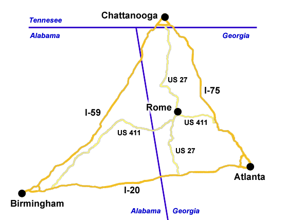 Location of Rome, Georgia and its major highways, from the perspective of Georgia, Alabama, and Tennessee.